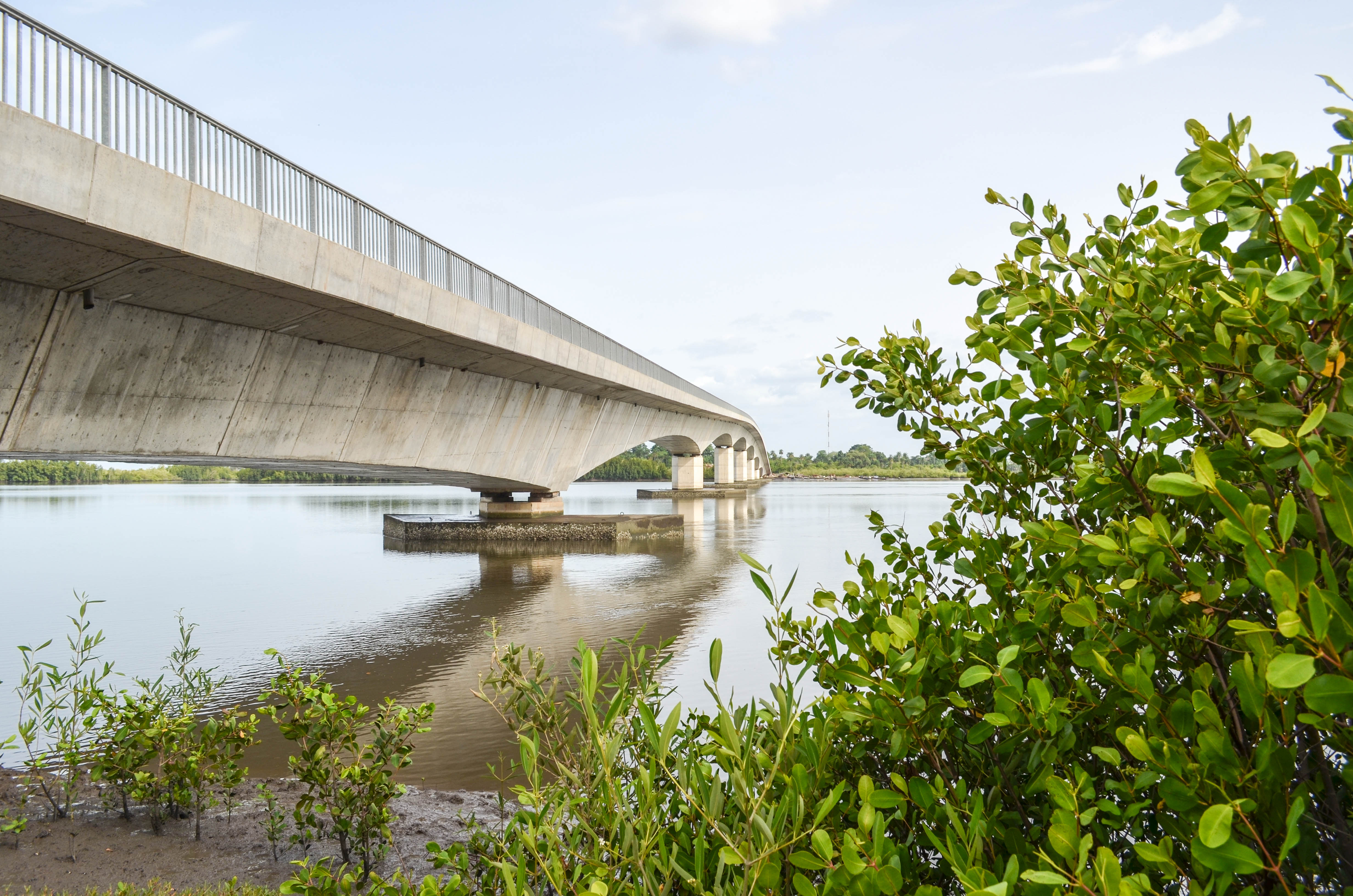 Bridge over the Rio Farim/Cacheu river close to São Vicente, Guinea-Bissau